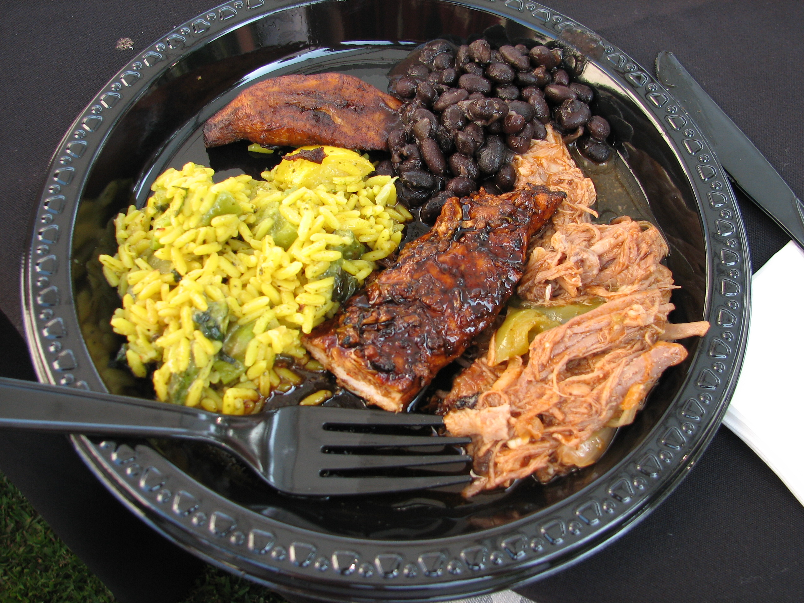 With privileges come responsibilities, like eating the catered cuban food. Shredded beef, jerk chicken, black beans and plantains.